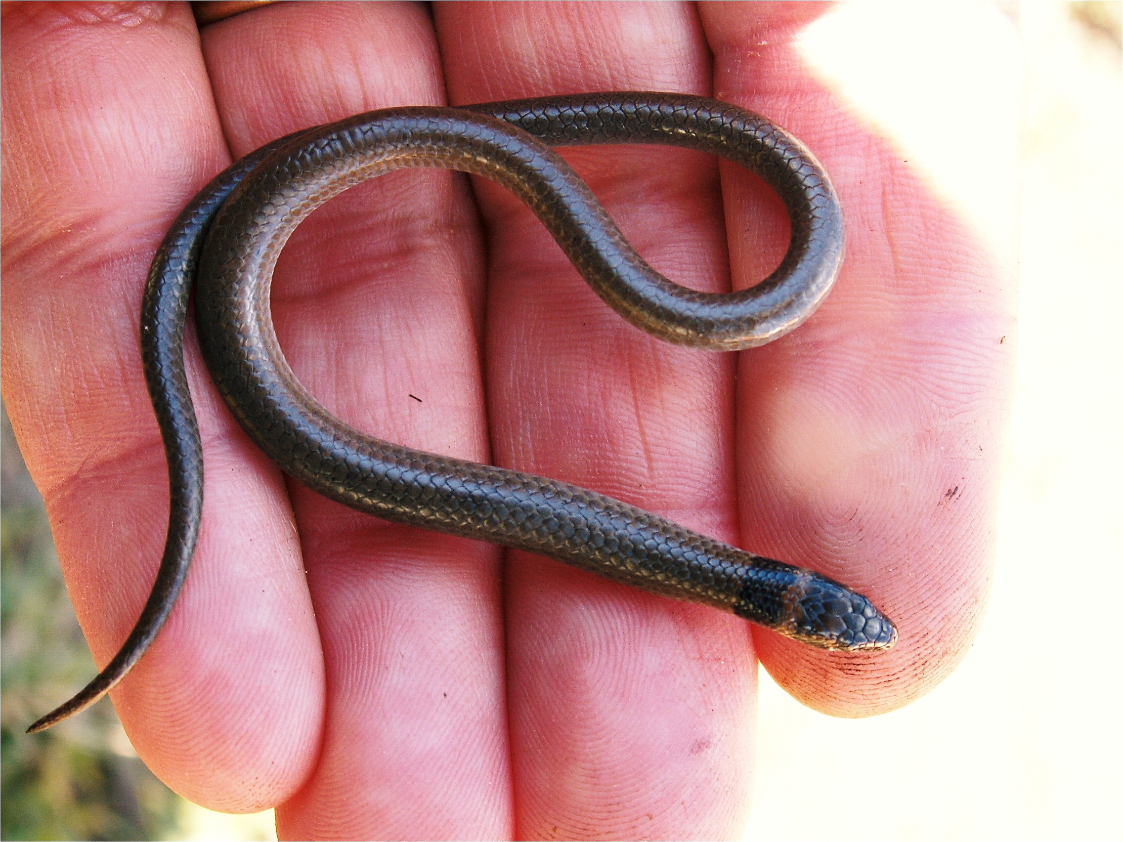 An excitable delma juvenile photographed in Yarrigan National Park by Michael J. Murphy.